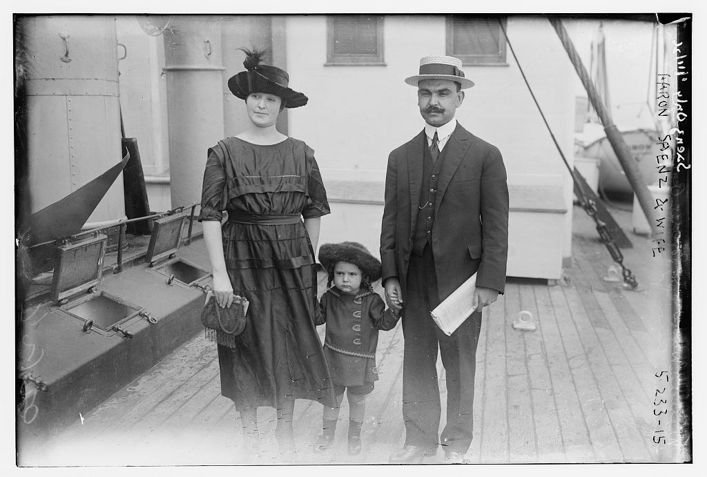 Aarón Sáenz Garza and family aboard ship in 1922